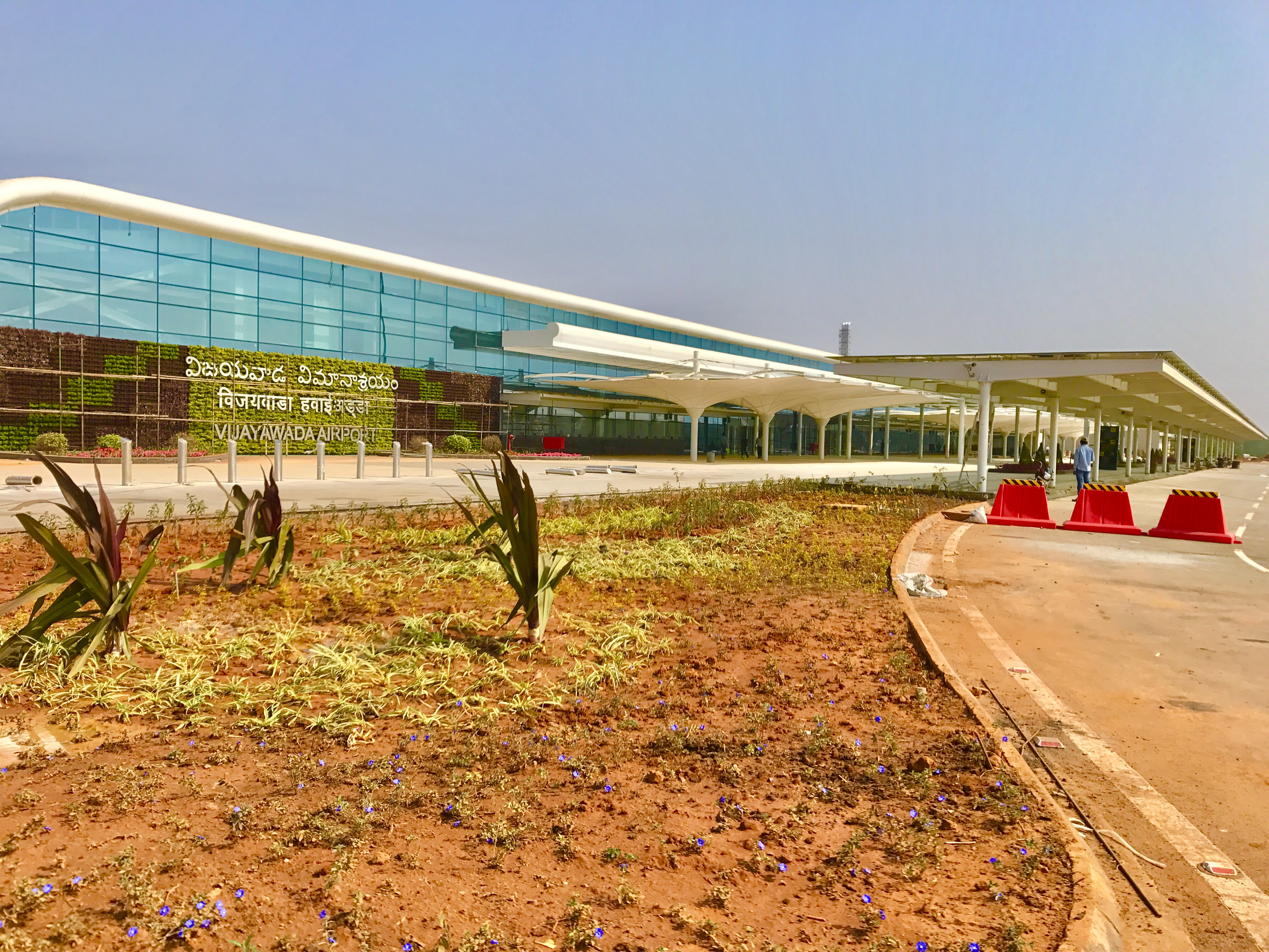 New termial of vijayawada